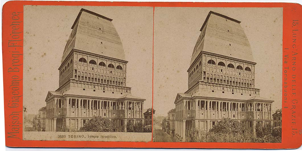 Giacomo Brogi (1822-1881) - "Turin - The jewish temple". Stereo card. This is the now famous "Mole antonelliana" in the building, that was begun as the Synagogue-to-be in Turin. When it become evident that it was far too large for the Jewish community in Turin, it was sold. Catalogue # 3680.